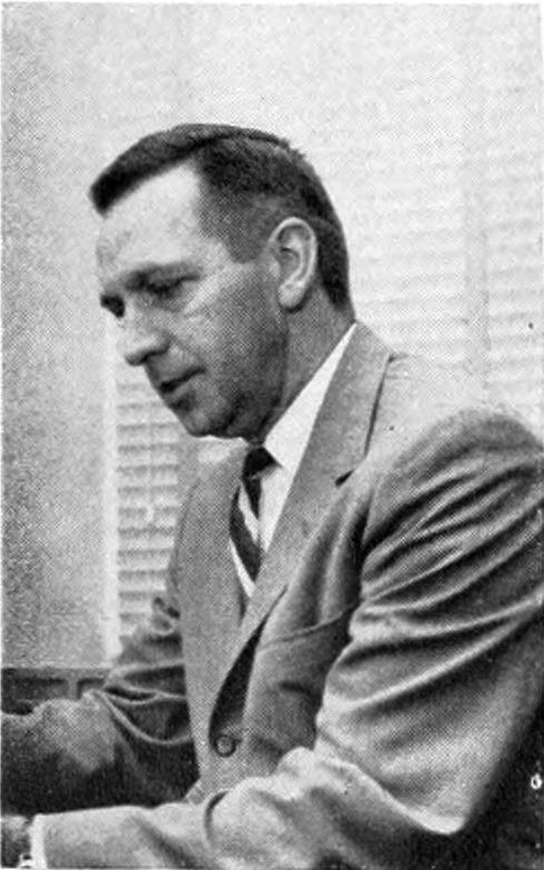 UCLA Anthropology-Sociology department chair Donald Cressey